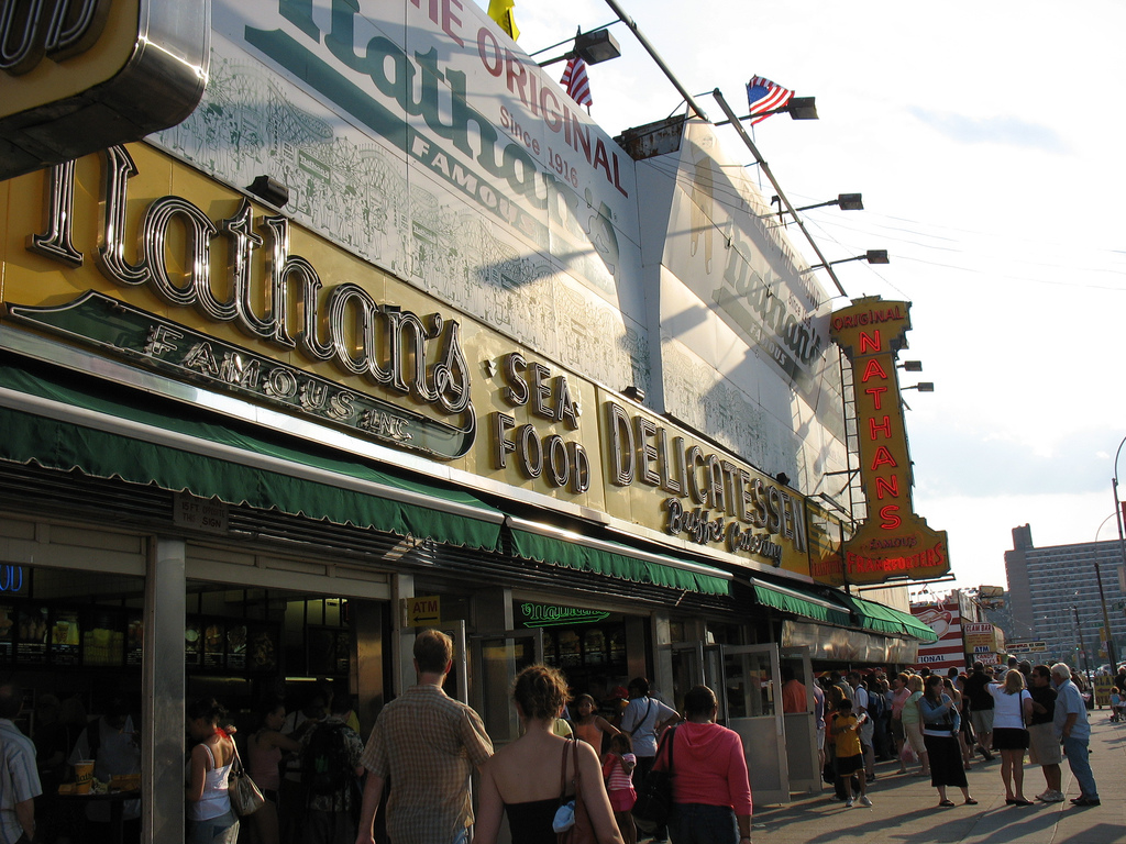 The original Nathan's Famous hot dog stand on Coney Island, New York.